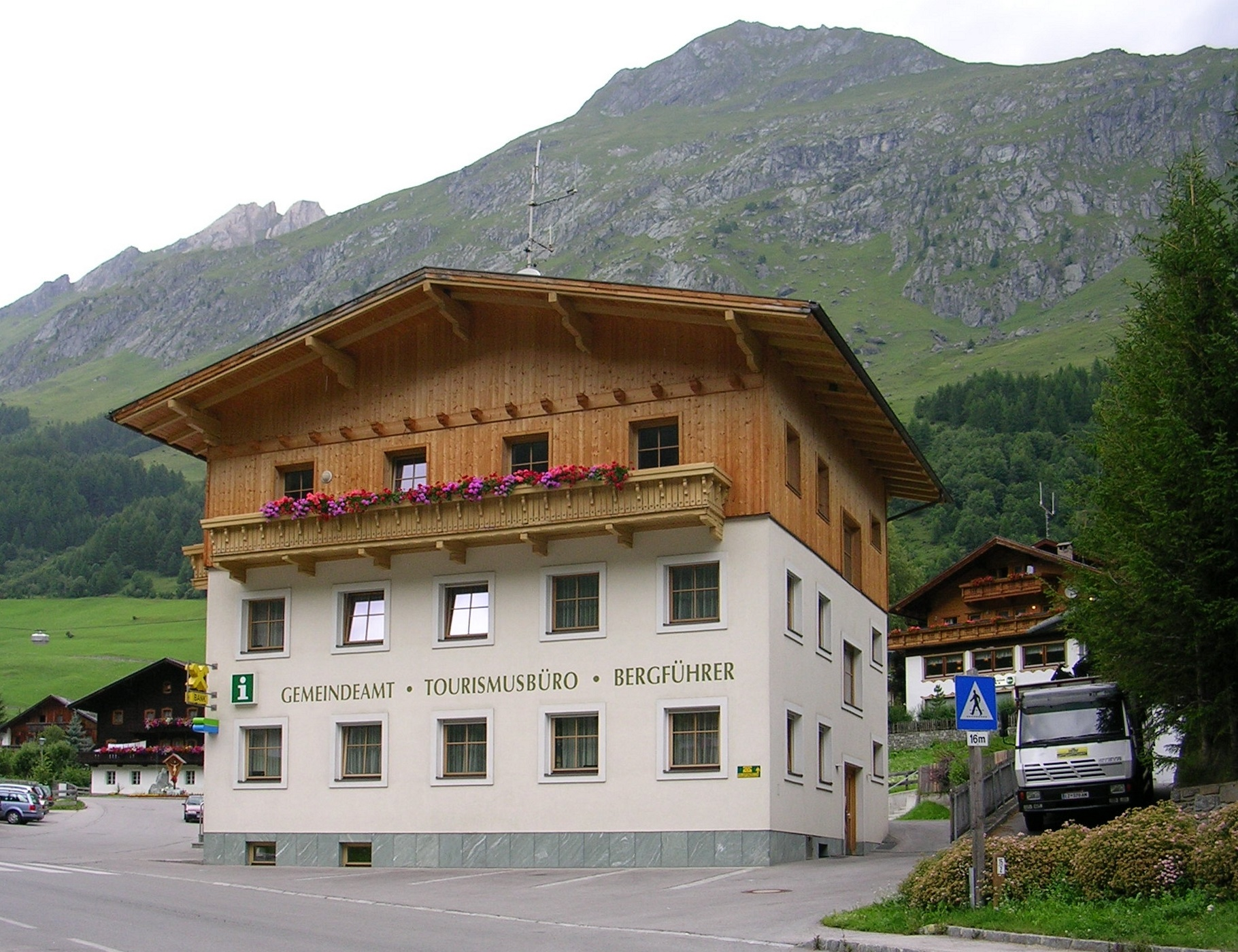 City hall of Prägraten am Großvenediger